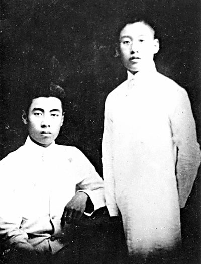 Zhou Enlai (left) and his friend Li Fujing (right) in 1915 when they were studying at the Nankai High School